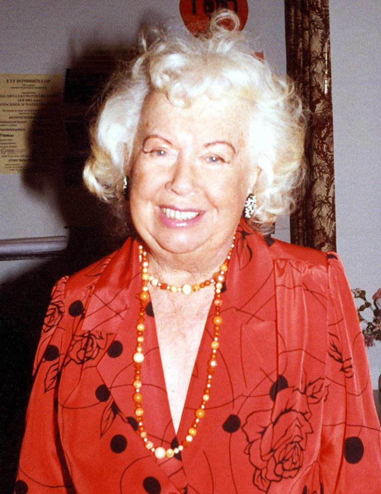 Swedish actress Saga Sjöberg, as released by image creator Lars Jacob ProdPlace: Skeppsbron 24, Stockholm, Sweden